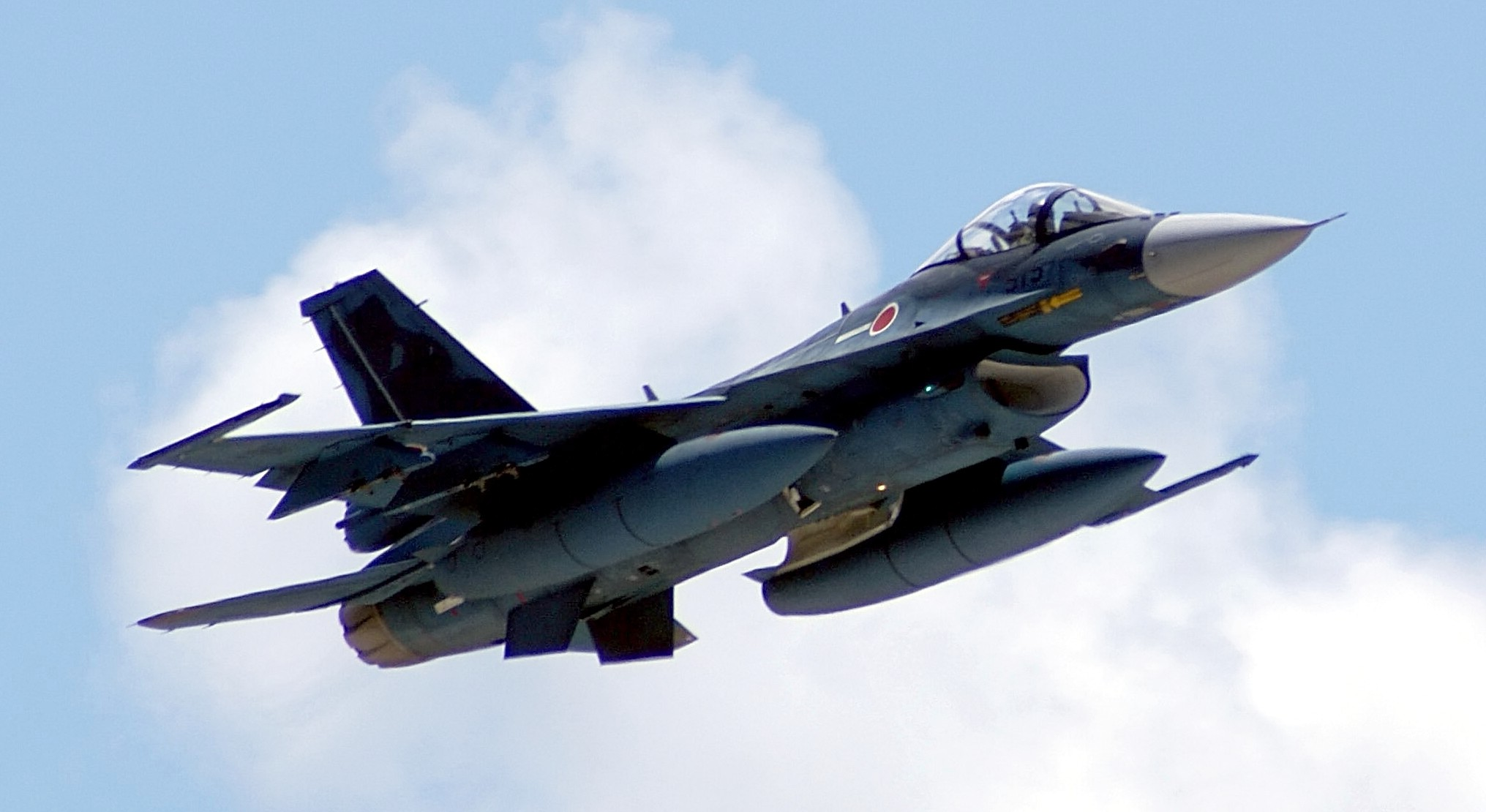 A Mitsubishi F-2A (515) support fighter from the Japan Air Self Defense Force takes off from the runway at Andersen Air Force Base, Guam, June 13 as part of Exercise Cope North. The fighter, from No. 3 Squadron at Misawa Air Base, Japan, is making JASDF history as this is its first deployment outside of Japan, and the first time the aircraft will drop live munitions on a fixed target. (U.S. Air Force photo/Marine Cpl. Ashleigh Bryant)